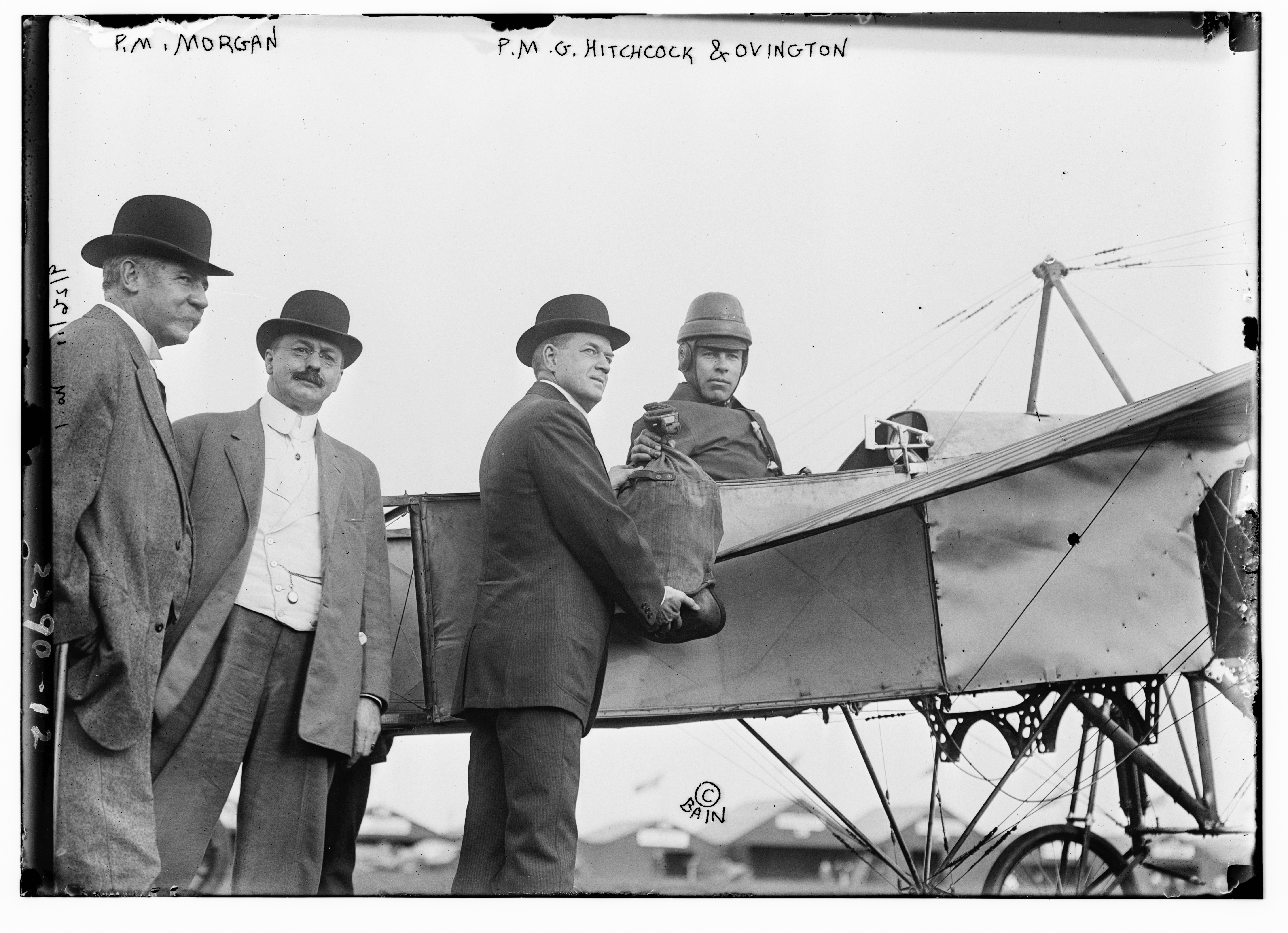 Bain News Service,, publisher. Edward M. Morgan, Frank Harris Hitchcock, and Earle Lewis Ovington [between 1910 and 1915] 1 negative : glass ; 5 x 7 in. or smaller. Notes: Title from unverified data provided by the Bain News Service on the negatives or caption cards. Forms part of: George Grantham Bain Collection (Library of Congress). Subjects: Air pilots Format: Glass negatives. Repository: Library of Congress, Prints and Photographs Division, Washington, D.C. 20540 USA, General information about the Bain Collection is available at Persistent URL: Call Number: LC-B2- 2290-12